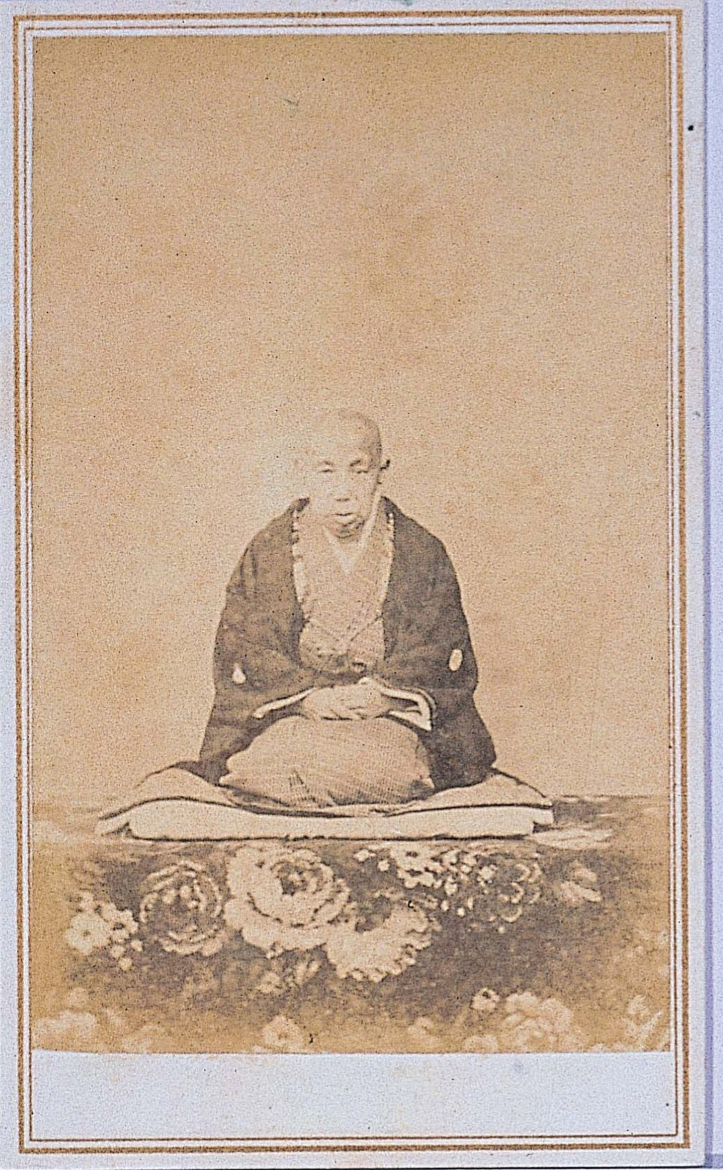 The photograph of Seishoin.